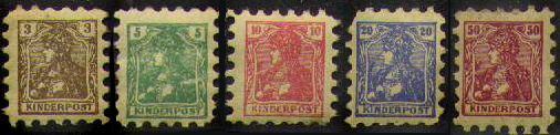 German stamps of children's post. Germania series. 1910s-1920s